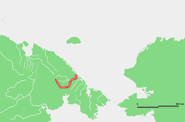 Location map